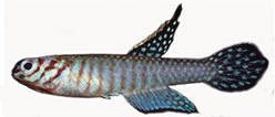 Male of Mucurilebias leitaoi